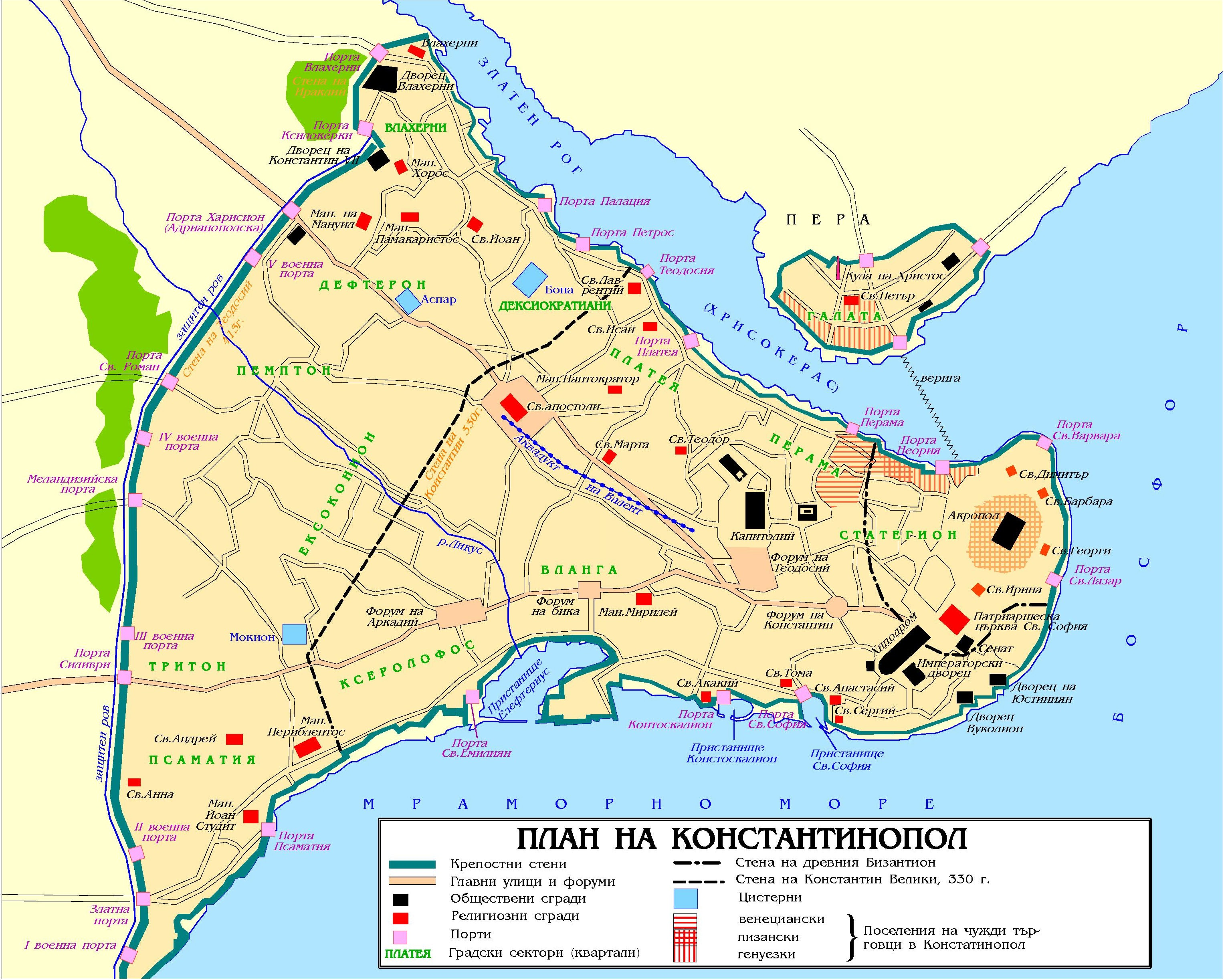 Map of Constantinopol in Bulgarian